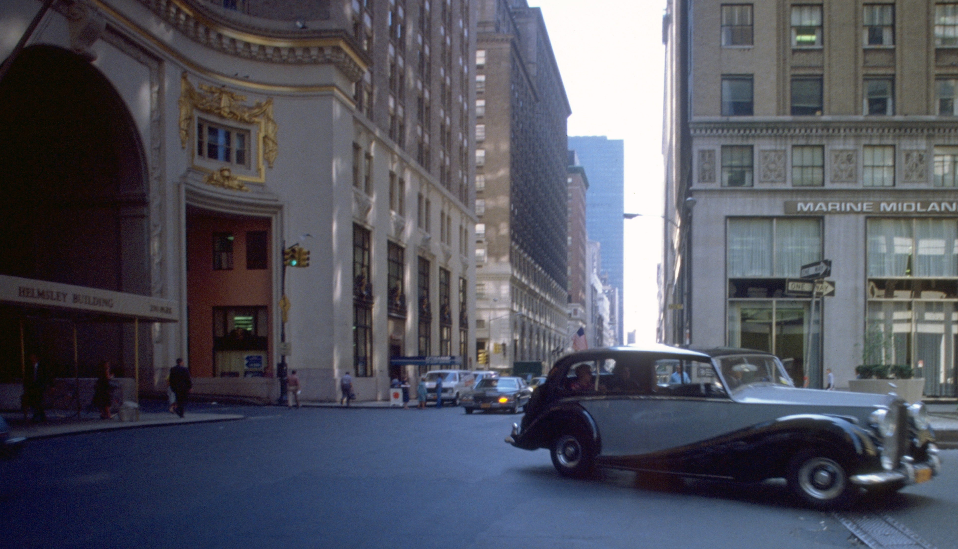 A Rolls-Royce Silver Dawn 1948. Just passing by 230 Park Avenue, at The Helmsley Building